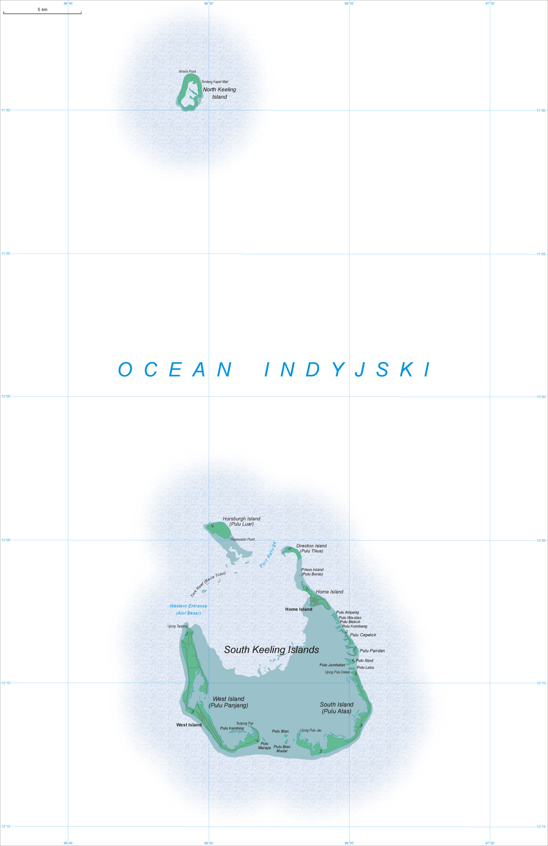 Map of the Cocos Islands